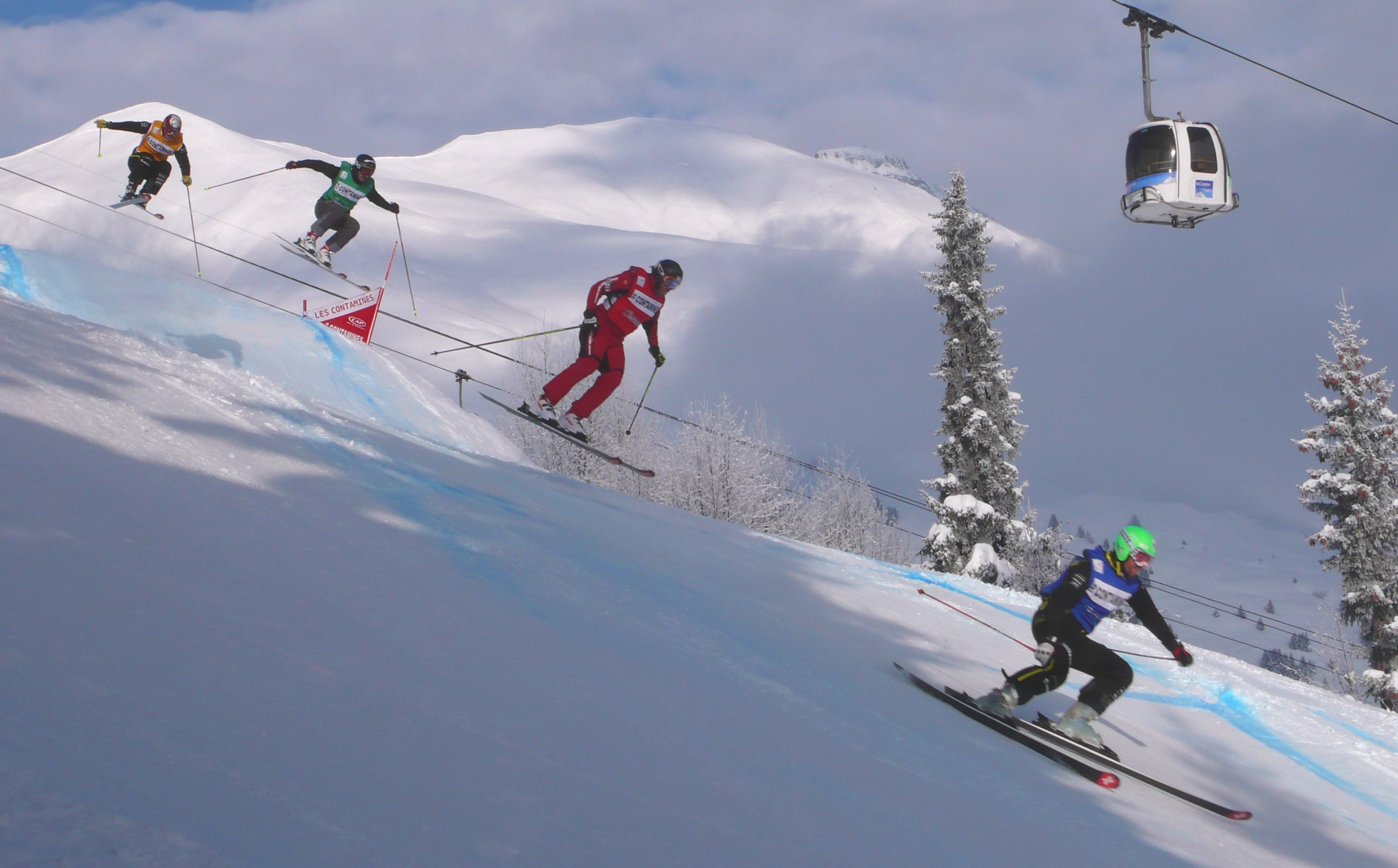 Ski Cross World Cup at Les Contamines-Montjoie, 1/8 final: Beni Hofer, Christopher Delbosco, Sylvain Miaillier, Richard Spalinger.